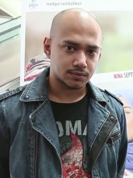 Husein Alatas when interviewed related to his latest film, Ada Surga di Rumahmu (2015)